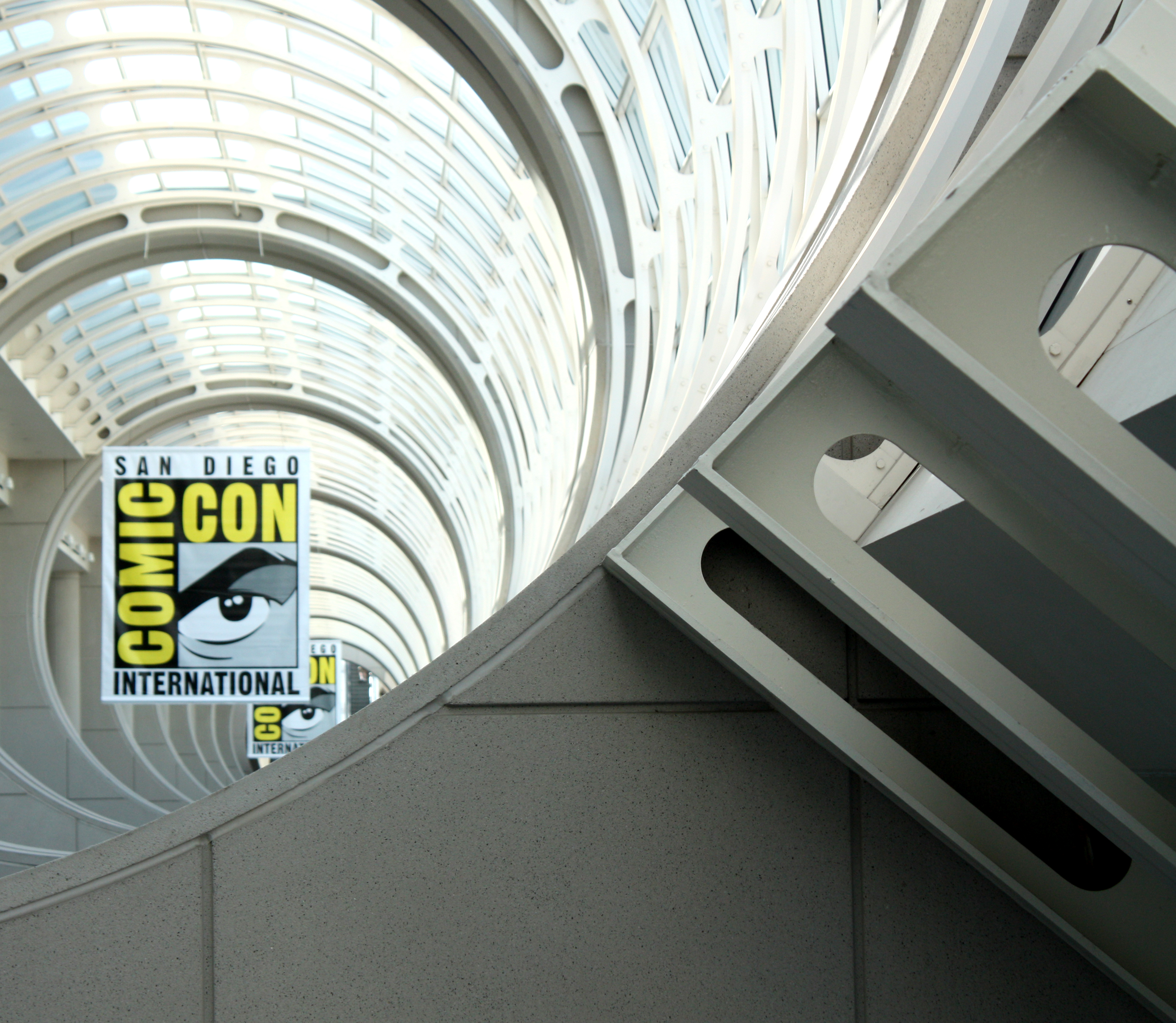 Sign inside the convention center for Comic Con.